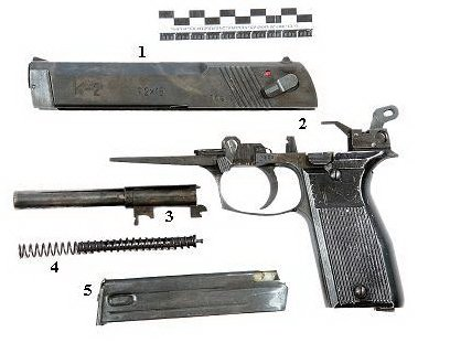 Armenia K-2 pisto field disassembly